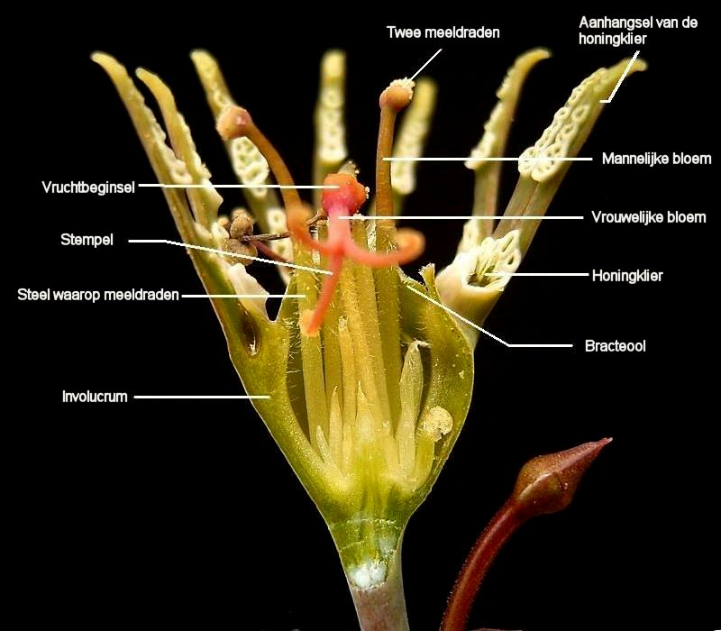 Euphorbia tridentata, cross-section of a cyathium.